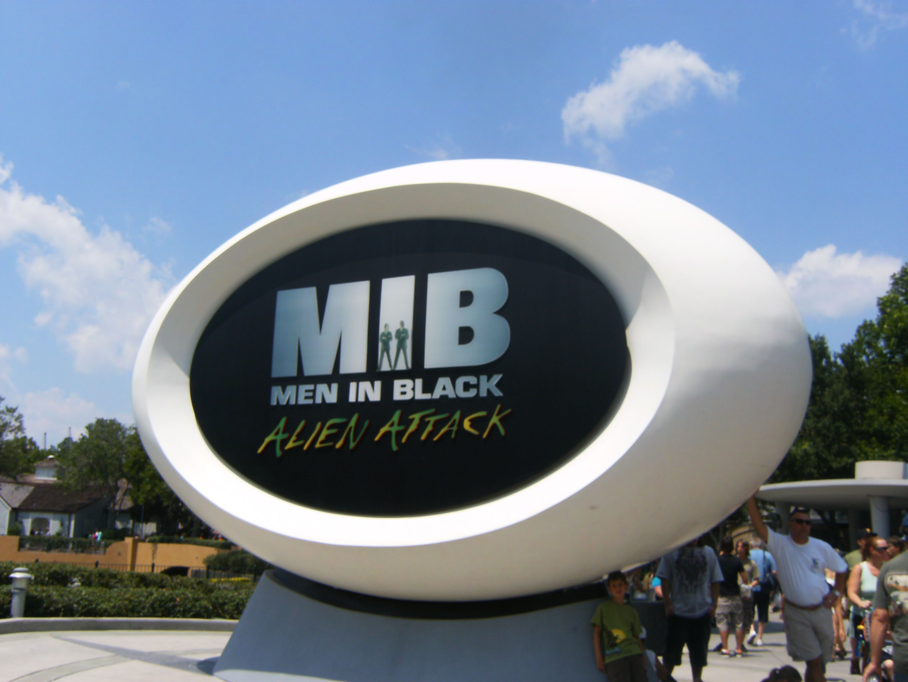 The oval-shaped sign at the entrance to Men In Black: Alien Attack.